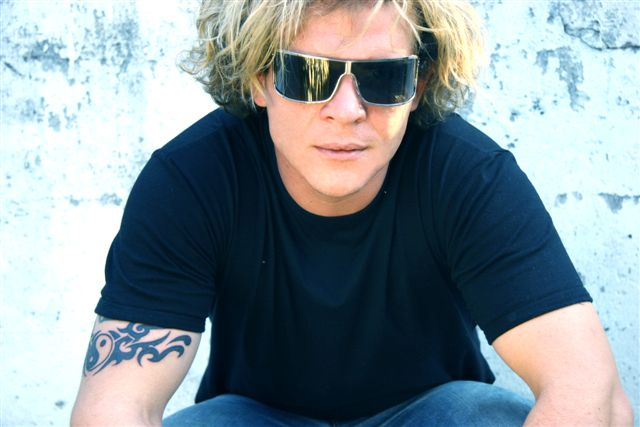 Jan Blohm, an Afrikaans rock and blues singer.